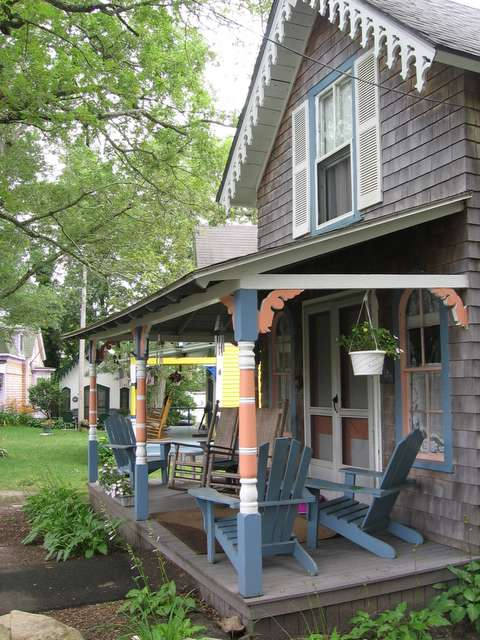 Kaushik Ghose, Digital photo, Martha's Vineyard, Gingerbread House, Cape Cod, MA, USA